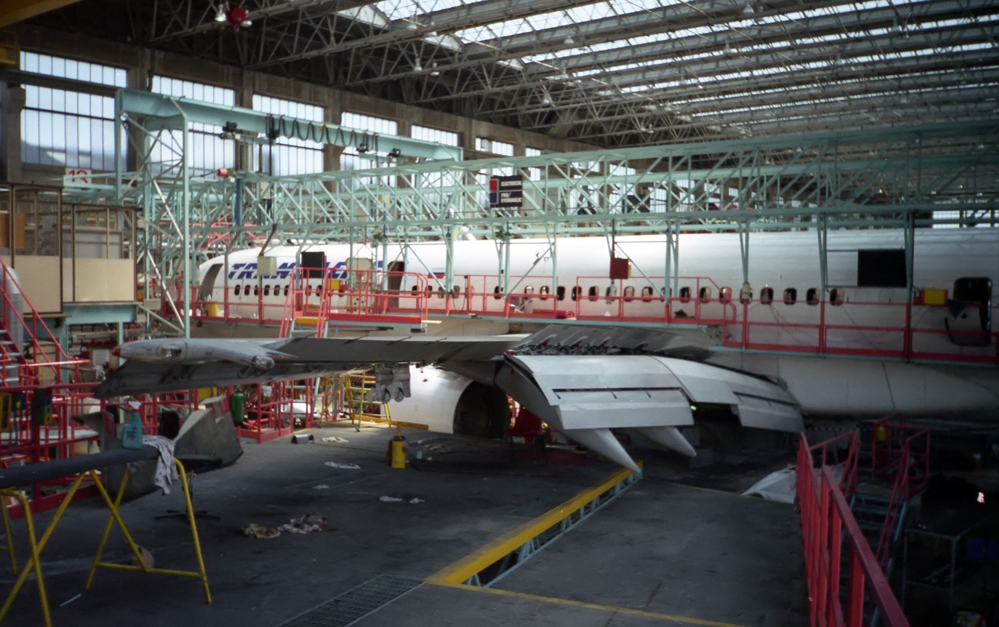 Photo taken in 1996